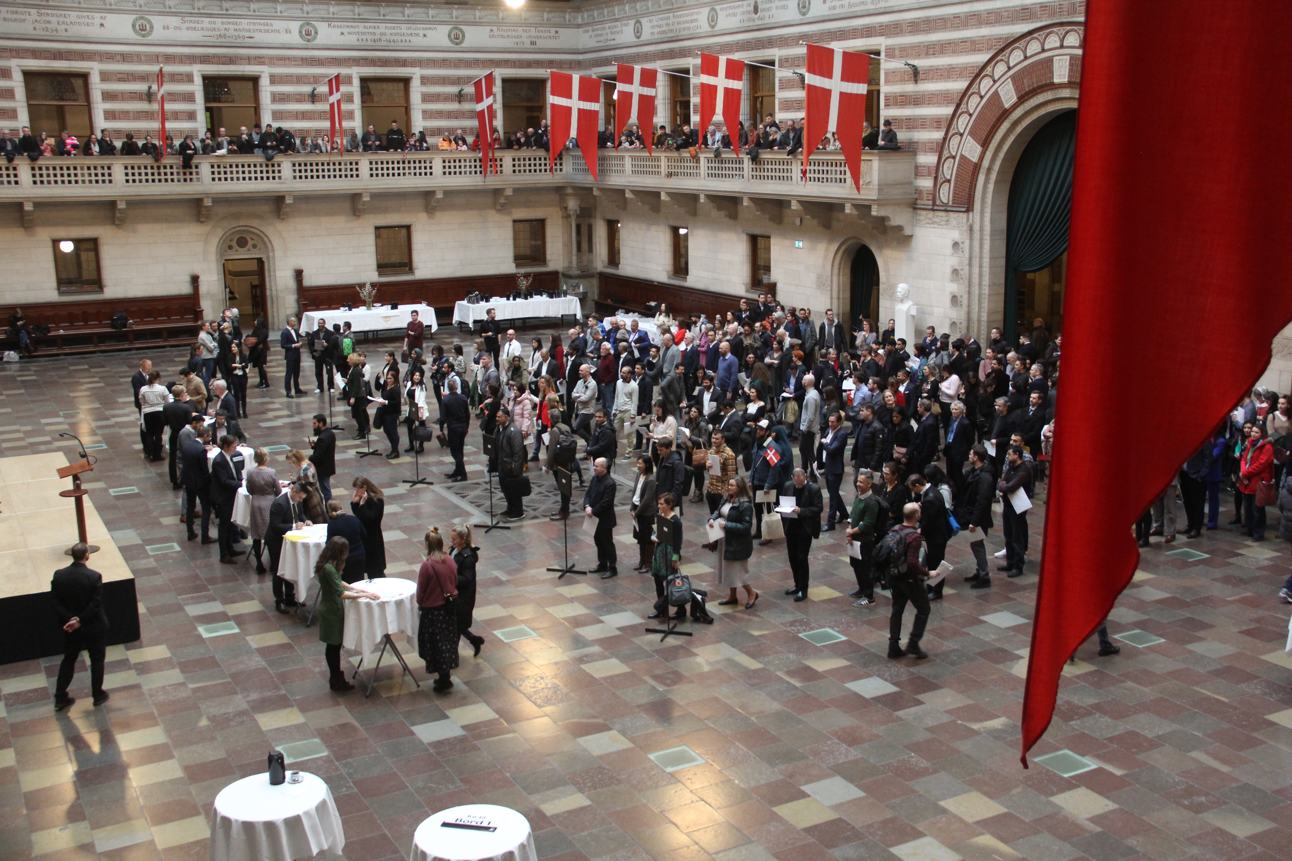 Cecilia Lonning-Skovgaard